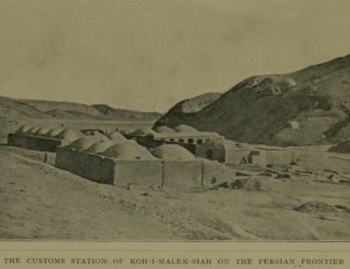 The Customs station of Koh-I-Malek-Siah on the Persian frontier